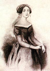 Nina Chavchavadze, wife of Alexander Griboedov, 1820s